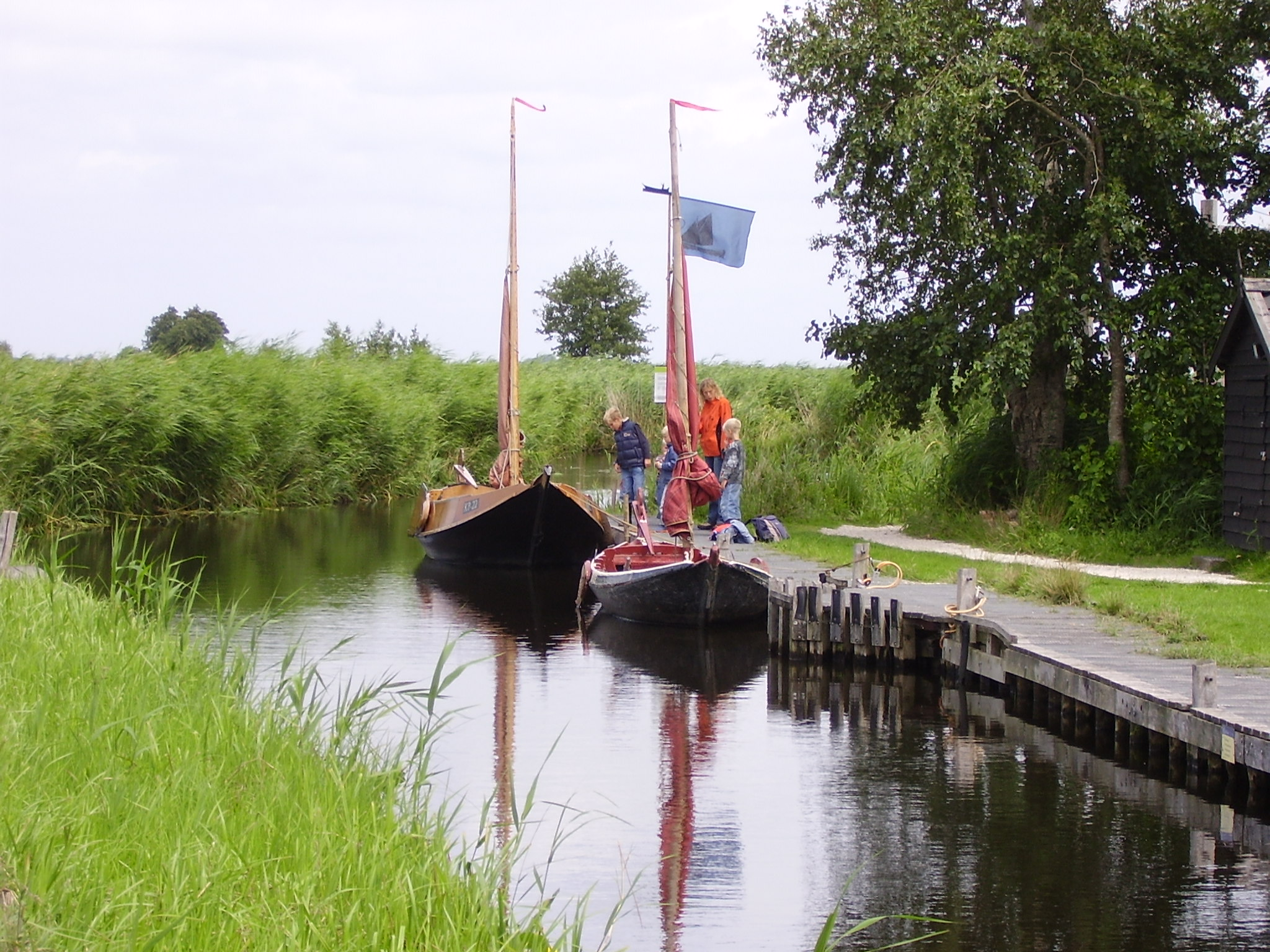 Two kinds of "Punters", a Dutch type of boats, namely a zeepunter (Seapunter) behind and a Gieterse punter (Punter of the Dutch village called Giethoorn) in front